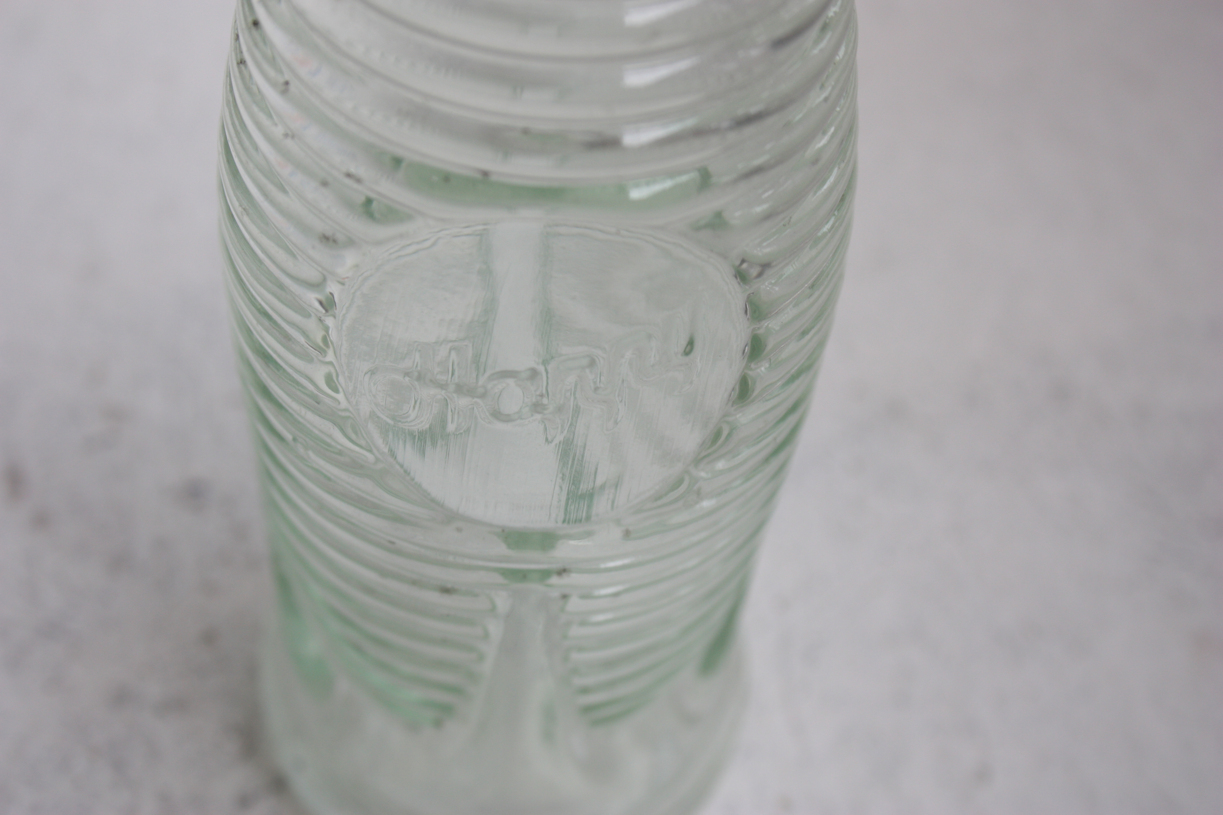 Cola flaske fra 1950. Happy er i en rund logo. Flasken har ringer rundt seg.